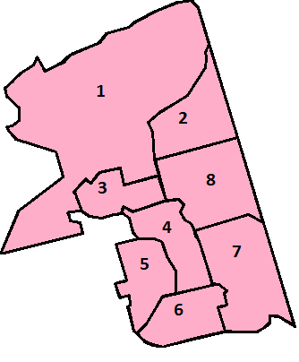 Map of Cambridge, Ontario's eight wards used since 2010.